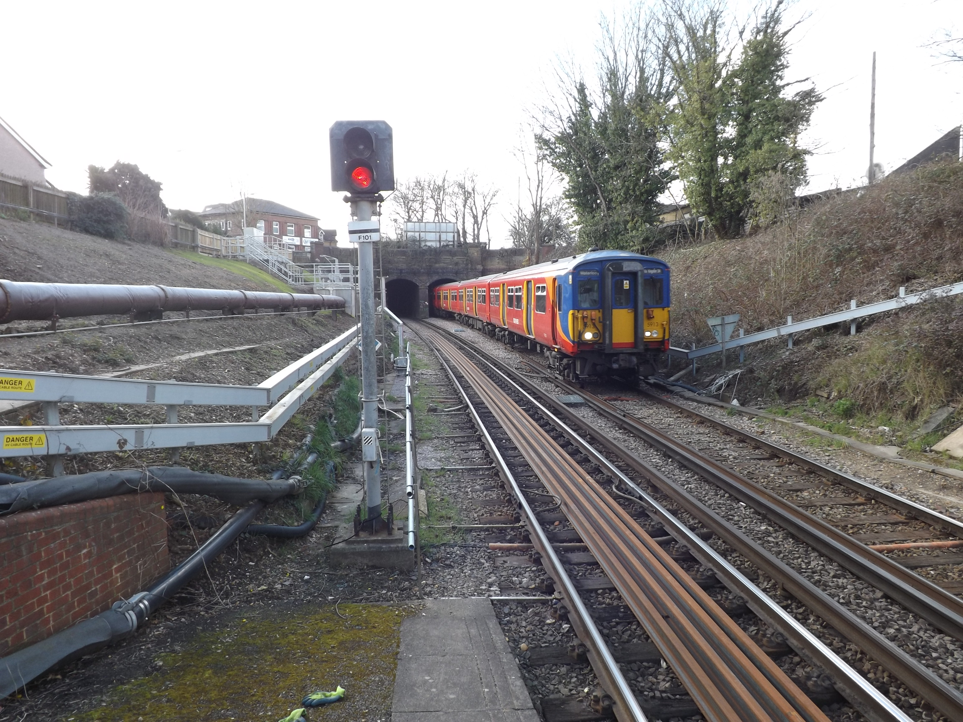 Train in the railway cutting at Fulwell approaching the station